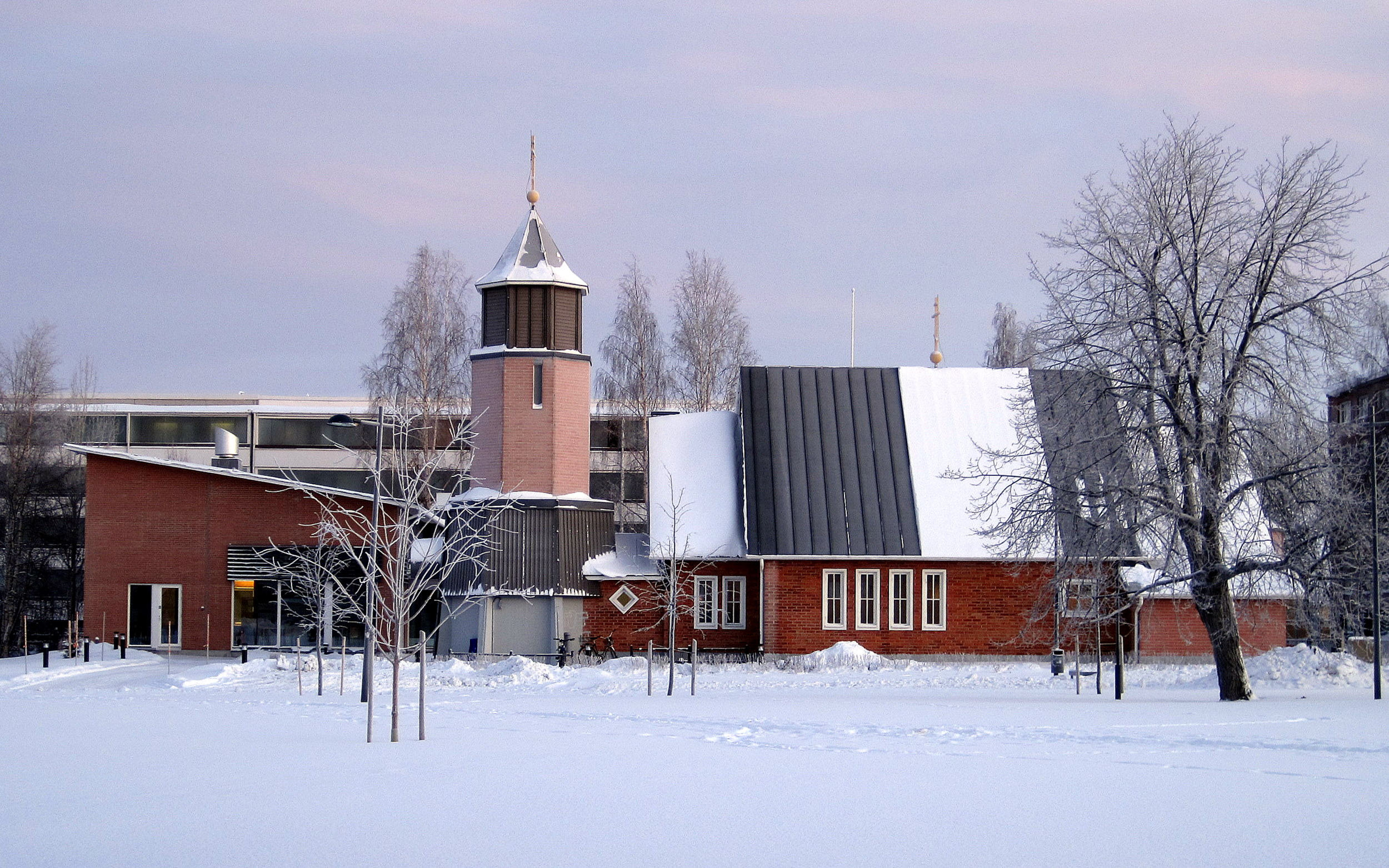 The Holy Trinity Cathedral – the Finnish Orthodox church in Oulu, Finland. The church was designed by architect Mikko Huhtela and completed in 1957.